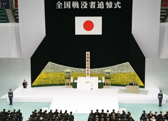 Yasuo Fukuda, Prime Minister, addressed at the Memorial Ceremony for the War Dead at Nippon Budokan in Chiyoda Ward, Tōkyō Metropolis on August 15, 2008.